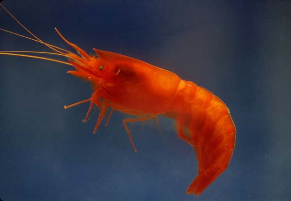 Acanthephyra, a deep-water decapod.